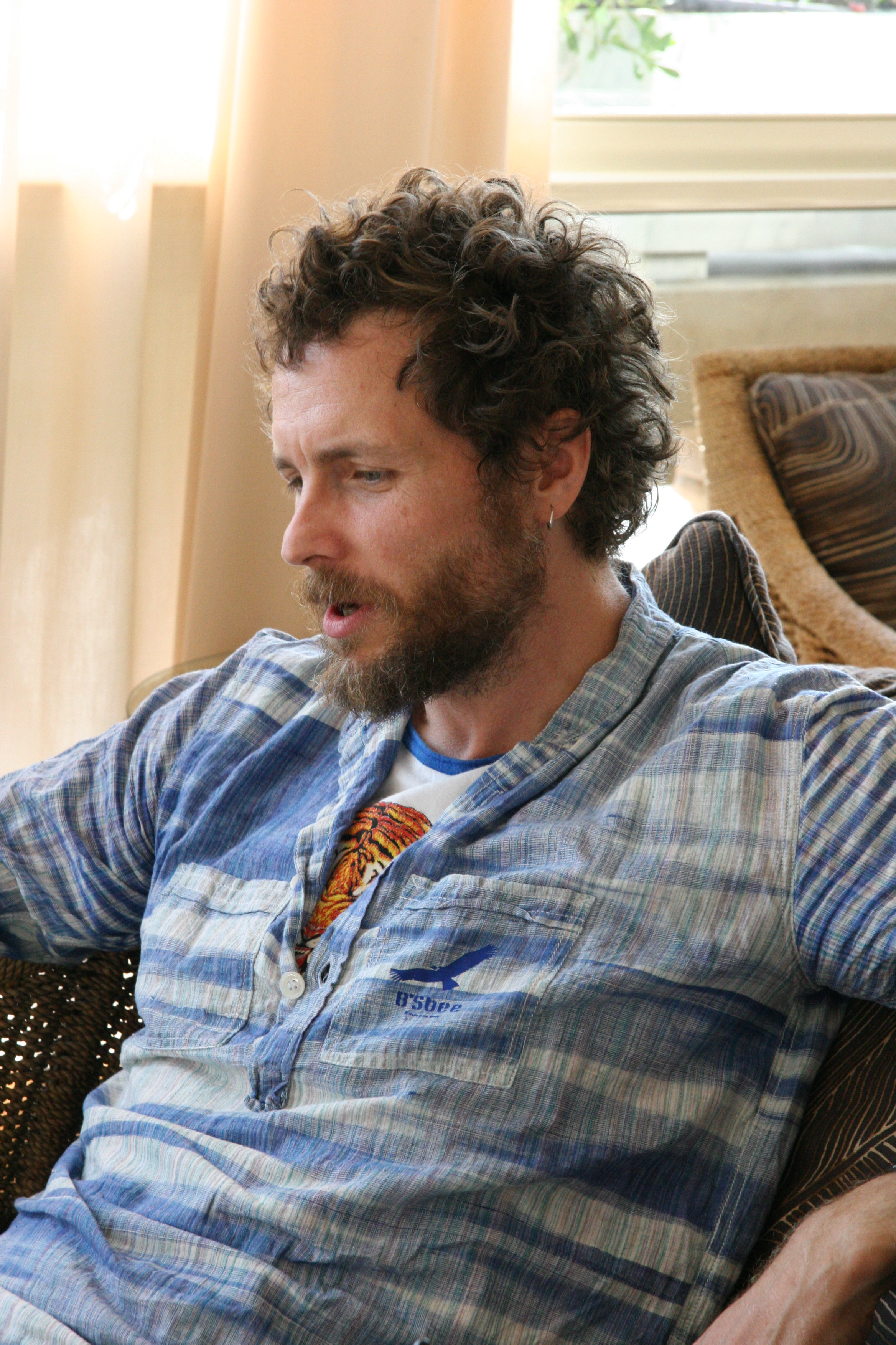 Italian singer-songwriter Jovanotti